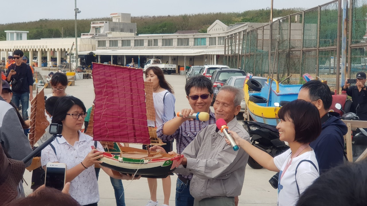 Penghu "Da-Mu" wooden boat, "Da-Mu" means "big eyes" in Mandarin Chinese. It used to sail between Taiwan island and Fujian southeastern sea area